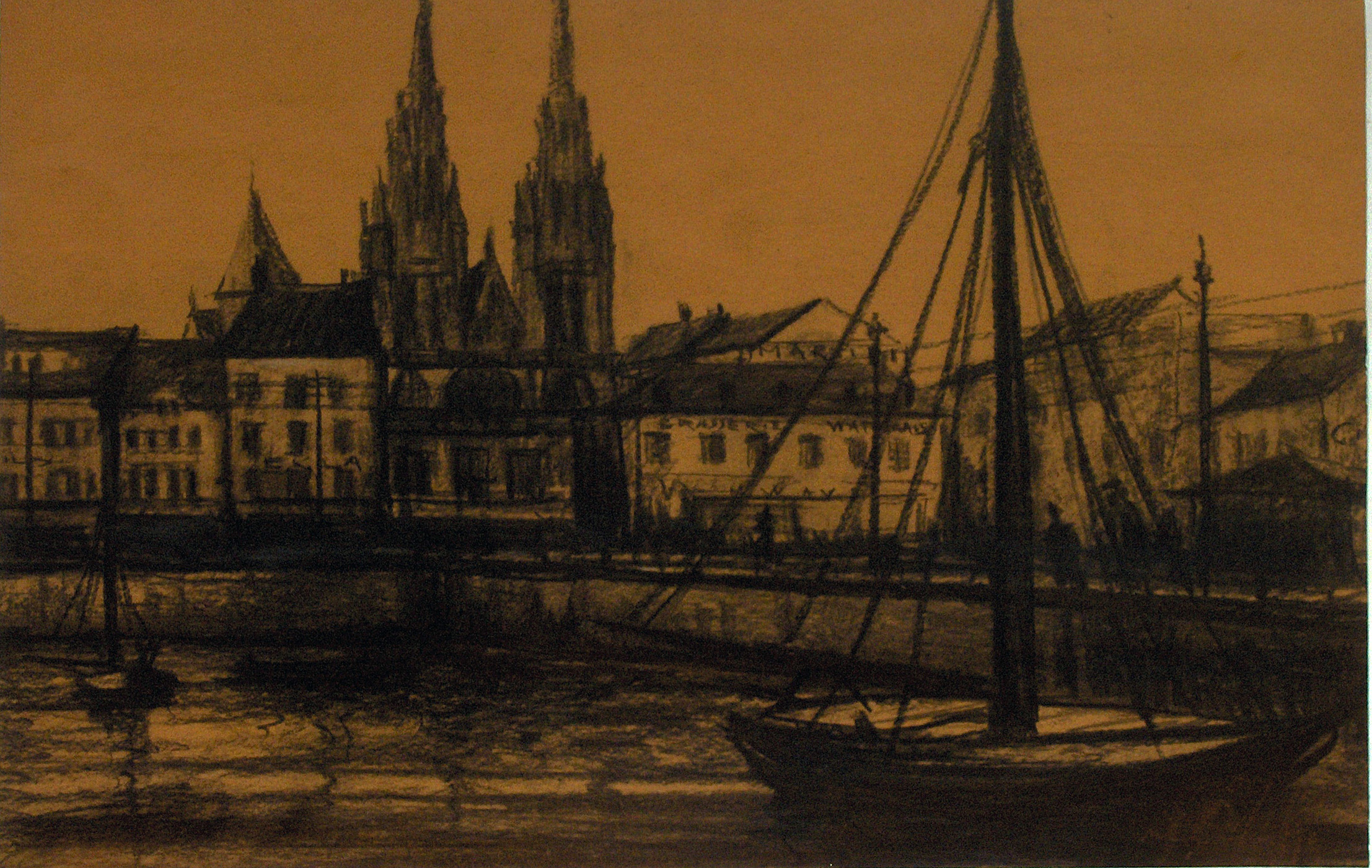 "The harbour in front of the station of Ostend, charcoal drawing by Auguste Oleffe (1867-1931); private collection